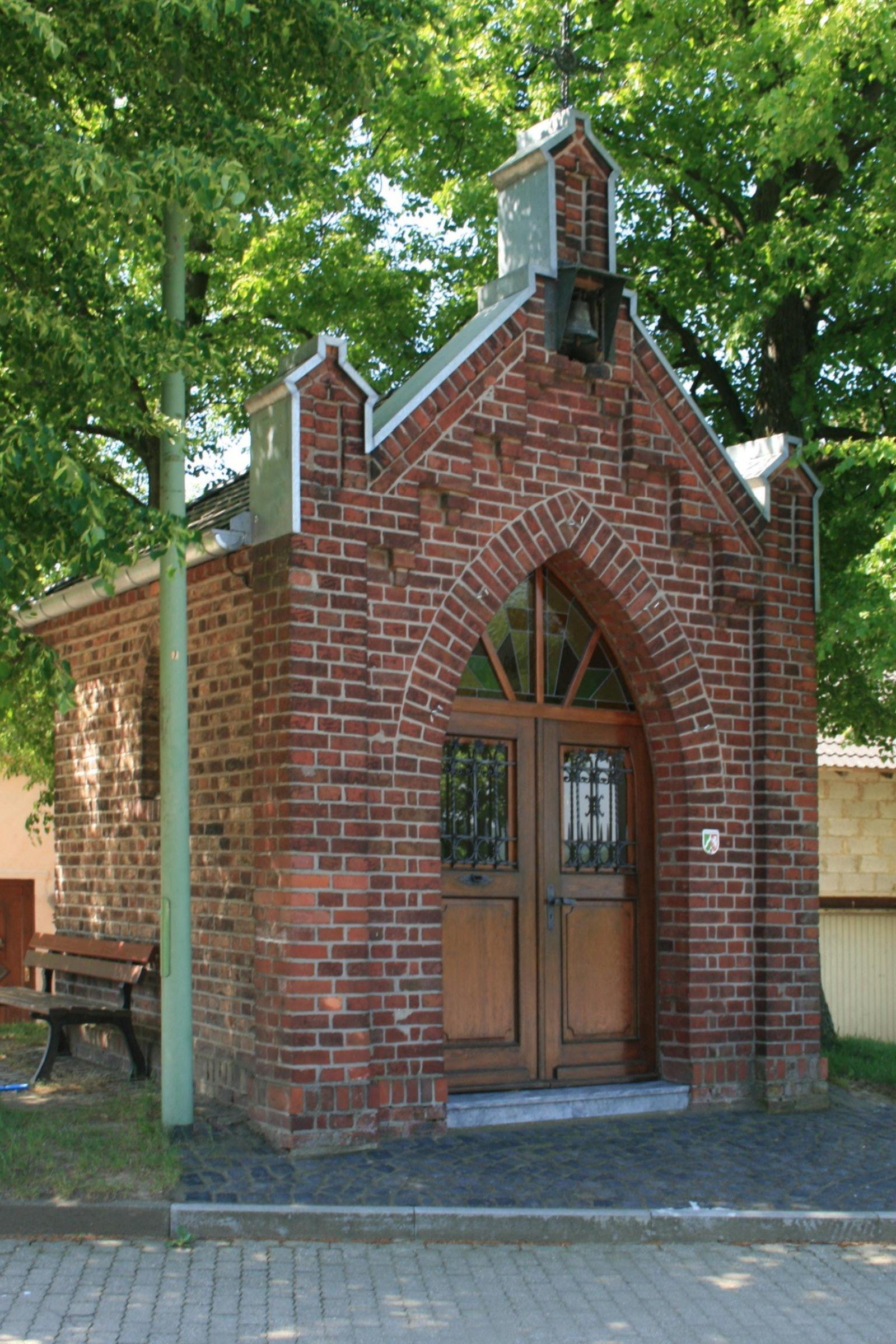 Cultural heritage monument No. 20 in Niederzier